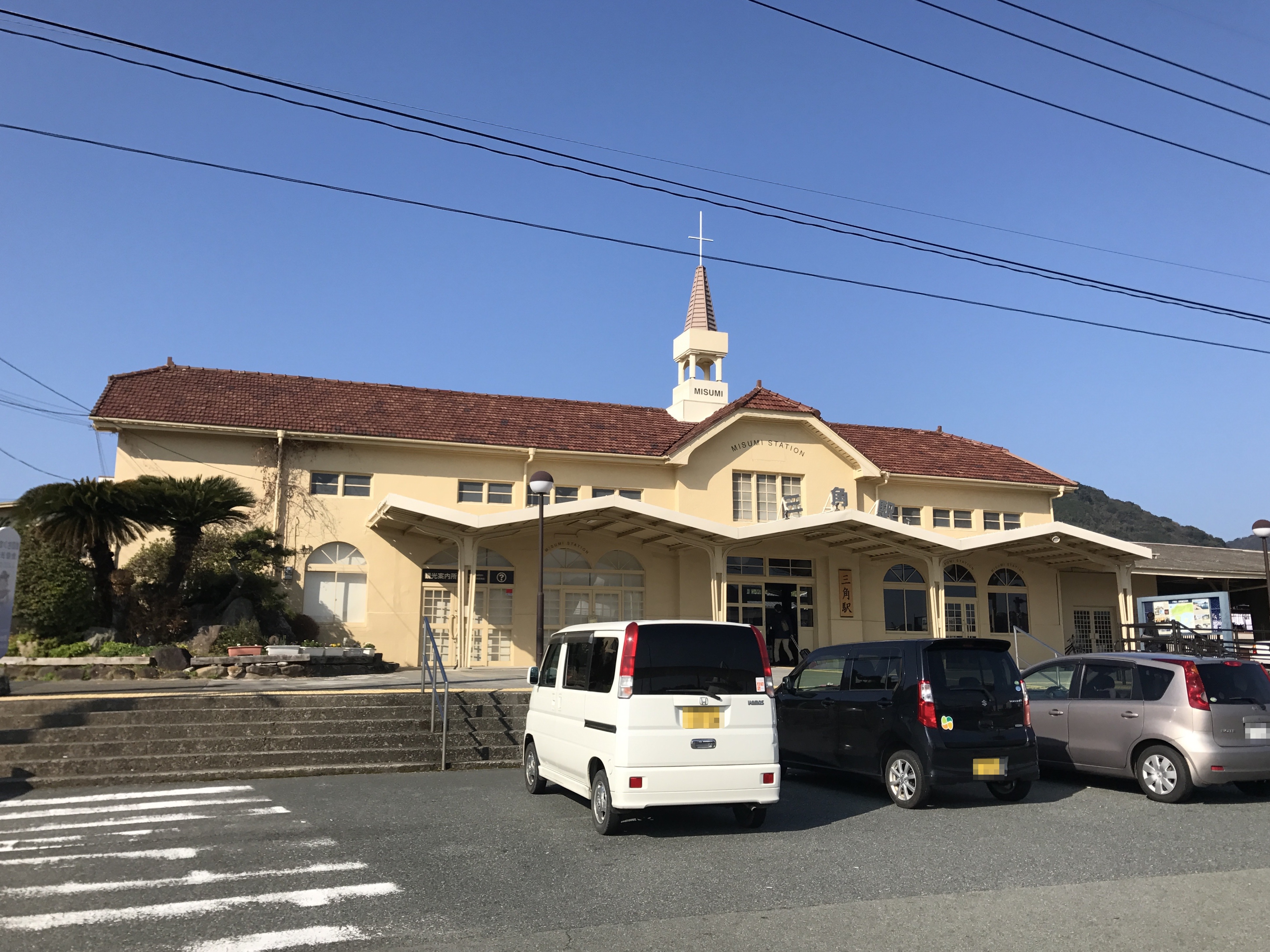 Misumi Station forecourt in Kumamoto Prefecture, Japan